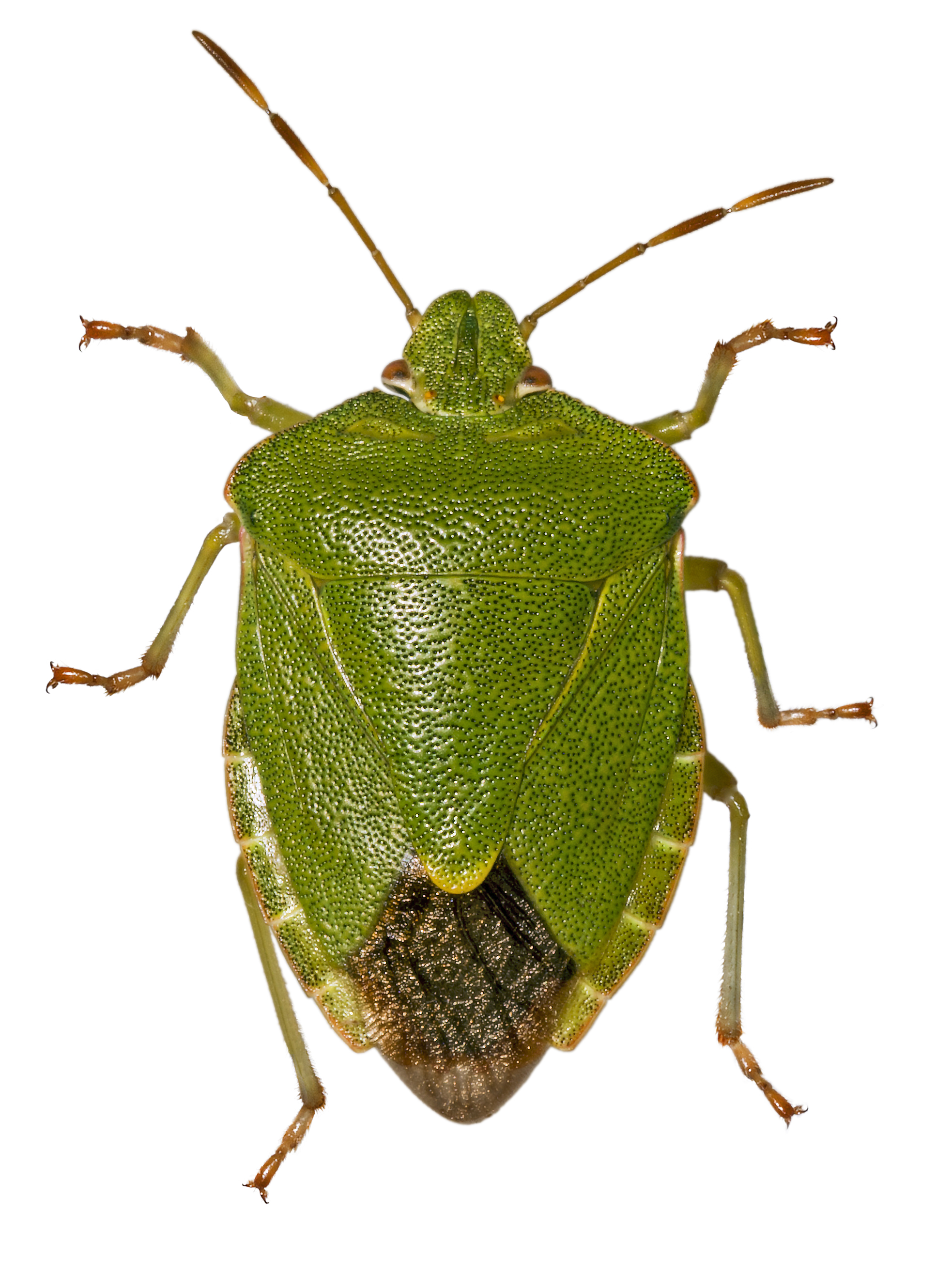 Green shield bug.